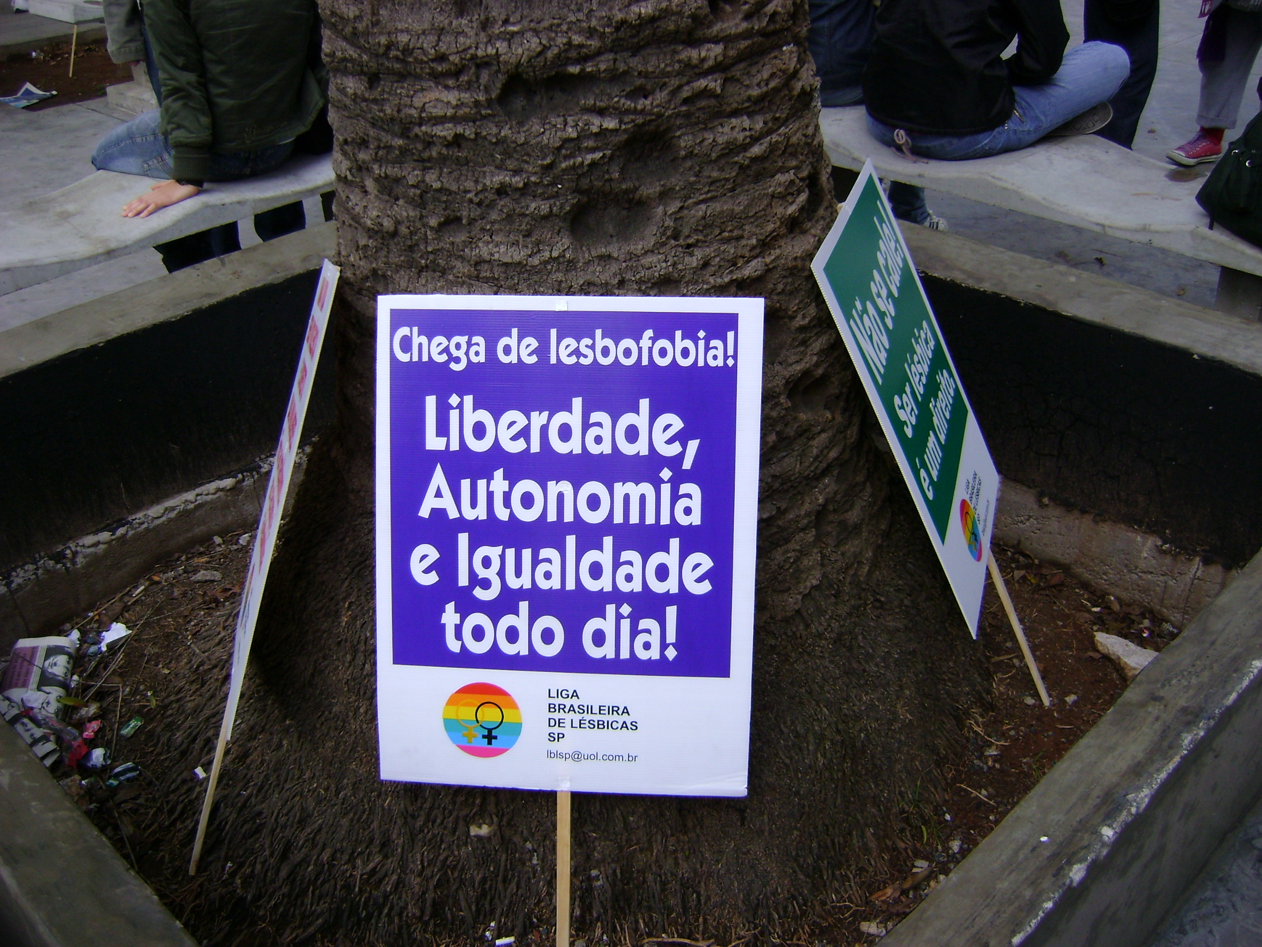 2009 Walk Lesbian in São Paulo